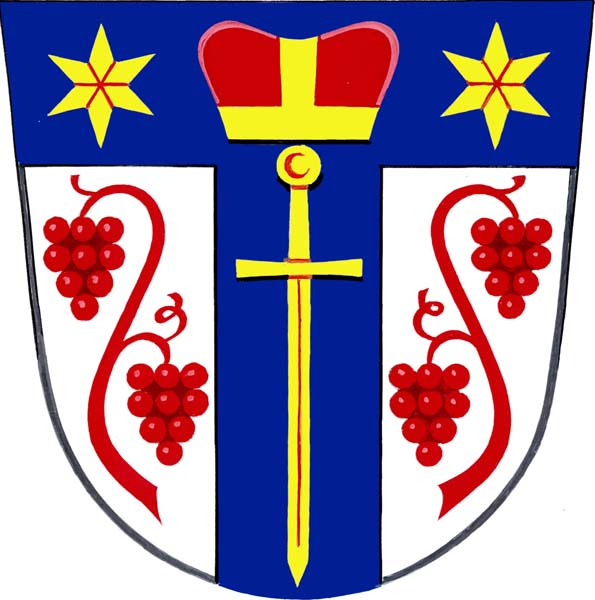 Municipal coat of arms of Kostelec village, Hodonín District, Czech Republic.